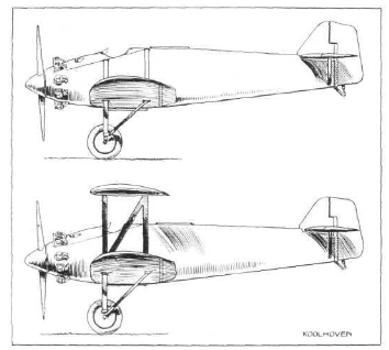 Monoplane and biplane configurations of the NVI or Koolhoven F.K.35, built but not flown.